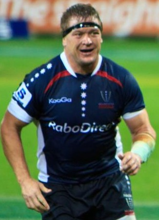 Rabodirect Rebels vs Sharks Rabodirect Rebels vs Sharks in the 2011 Super Rugby competition